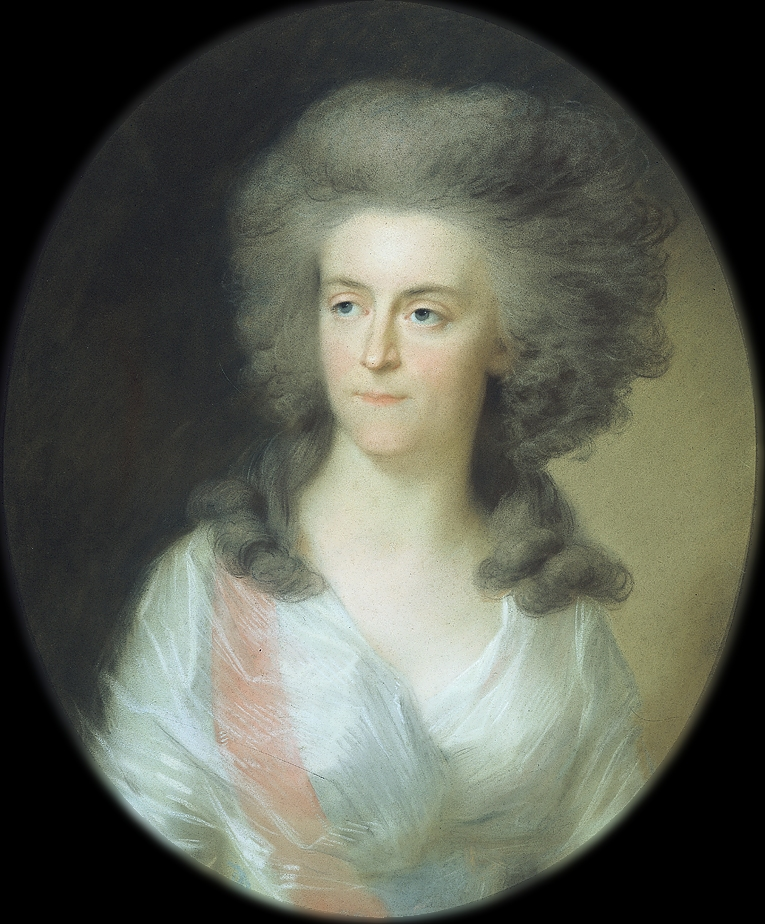 Frederika Sophia Wilhelmina, Princess of Prussia (1751–1820)